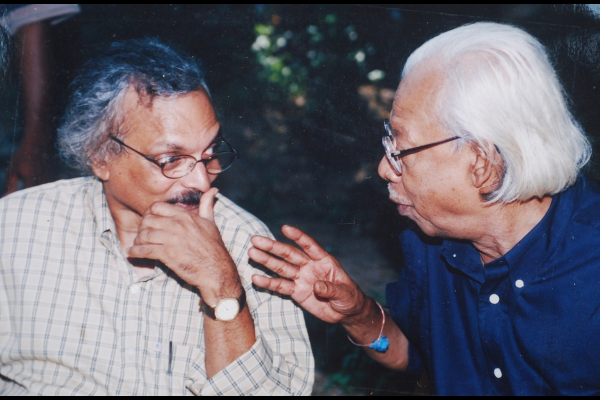 This media file is uploaded with India loves Wikipedia event. Kakkanadan WITH M MUKUNDAN